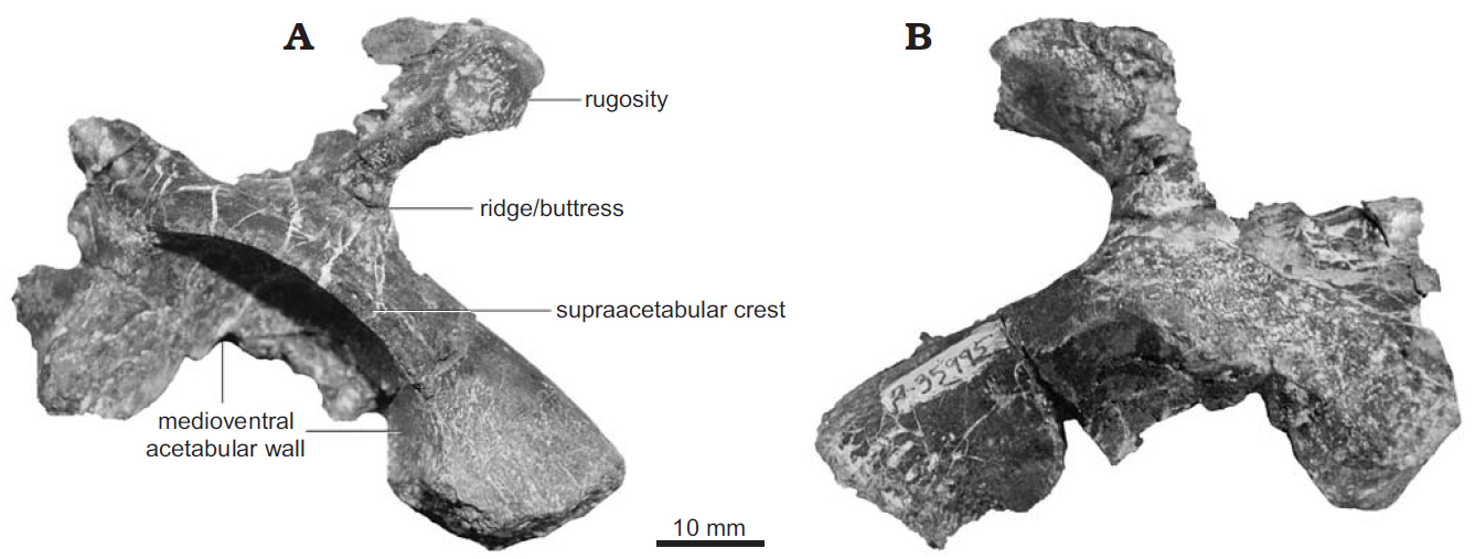 The herrerasaurian dinosauriform Caseosaurus crosbyensis Hunt, Lucas, Heckert, Sullivan, and Lockley, 1998 (NMMNH P-35995) from Synder Quarry, Rio Arriba County, New Mexico, USA; Carnian, Late Triassic; right ilium in lateral (A) and medial (B) views.